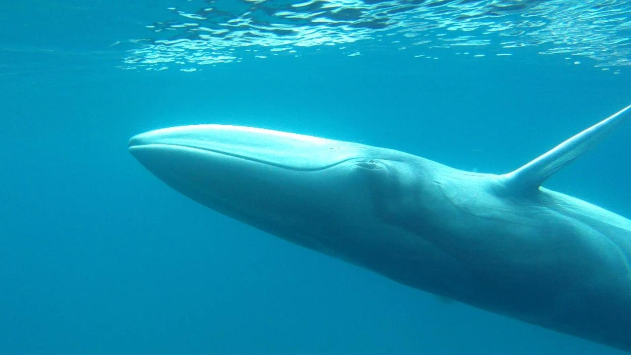 Balaenoptera omurai off northwestern Madagacsar